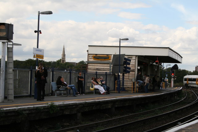 Platform 1, Lewisham station. The multi-ethnic groups of people waiting for an up train on Platform 1 make an interesting study. School term must have started early, for a boy and a girl who are obviously secondary-school students are much involved with each other. The spire of St. John's Church is seen in the background.